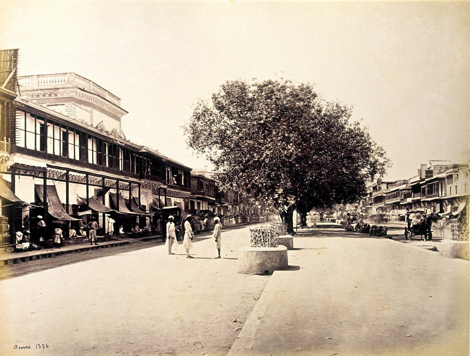 This photograph shows Chandni Chowk, the principal street of Shahjahanabad, the seventh city of the seven historical cities of Delhi. The sides of the road are lined with shops and artisans selling their wares. The road was built in 1650 by Jahanara Begum, the daughter of the emperor Shah Jahan. It led from the the Red Fort, Shah Jahan’s fortified palace, and was 40 yards wide and 1,520 yards long. Originally, a canal ran the entire length of the road and into the Fort, providing water for drinking and irrigation. The canal fell into disuse and was covered over by the British between 1840 and the 1860s. This photograph shows the raised cement bed that runs through the centre of the road where the canal used to be.